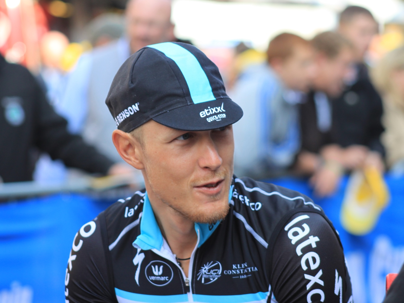 Etixx-Quickstep rider Matteo Trentin, ready for the start of Stage 6 of the 2015 Tour of Britain in Stoke-on-Trent.